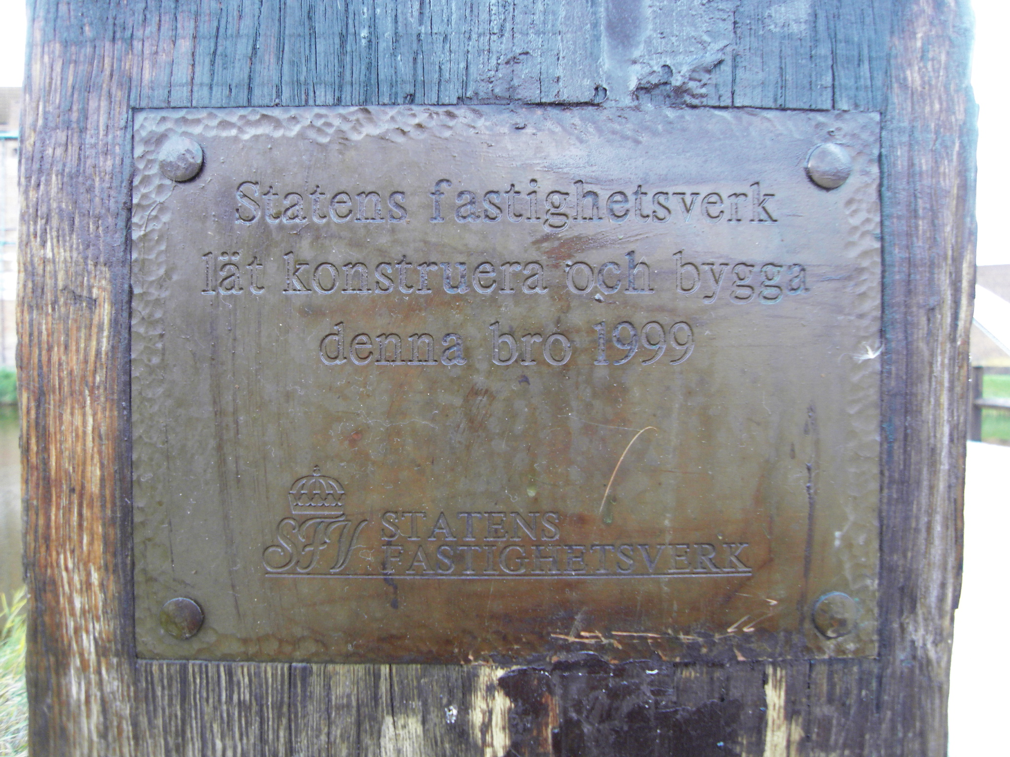 The sign plate on the bridge of Malmö Castle (Swedish: Malmöhus and Malmöhus slott), a medieval castle in the city of Malmö. The inscription is in Swedish.